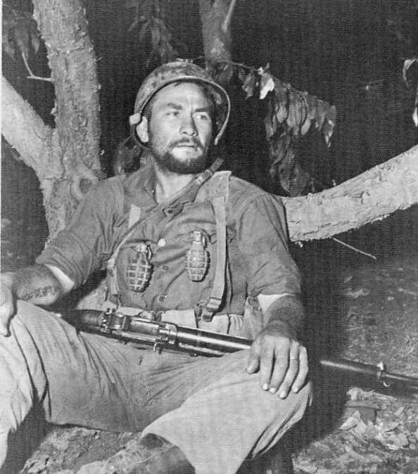 A US 5th RCT soldier rests after 31 days of fighting on Battle Mountain during the Korean War in 1950